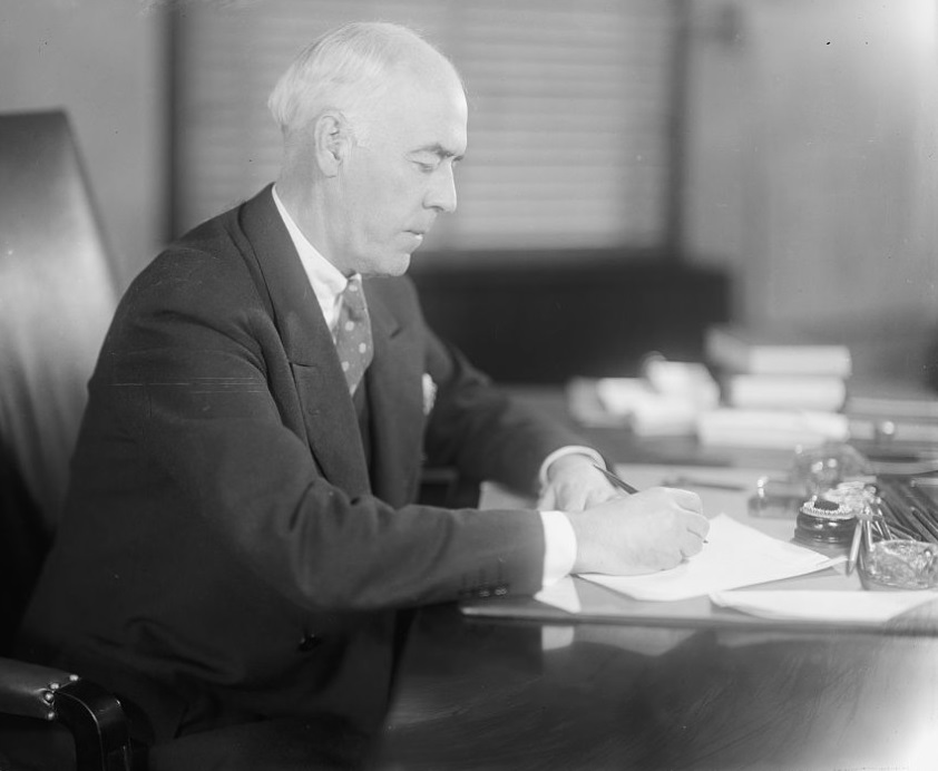 Robert E. Healy (Vermont Supreme Court Justice, US SEC Commissioner)